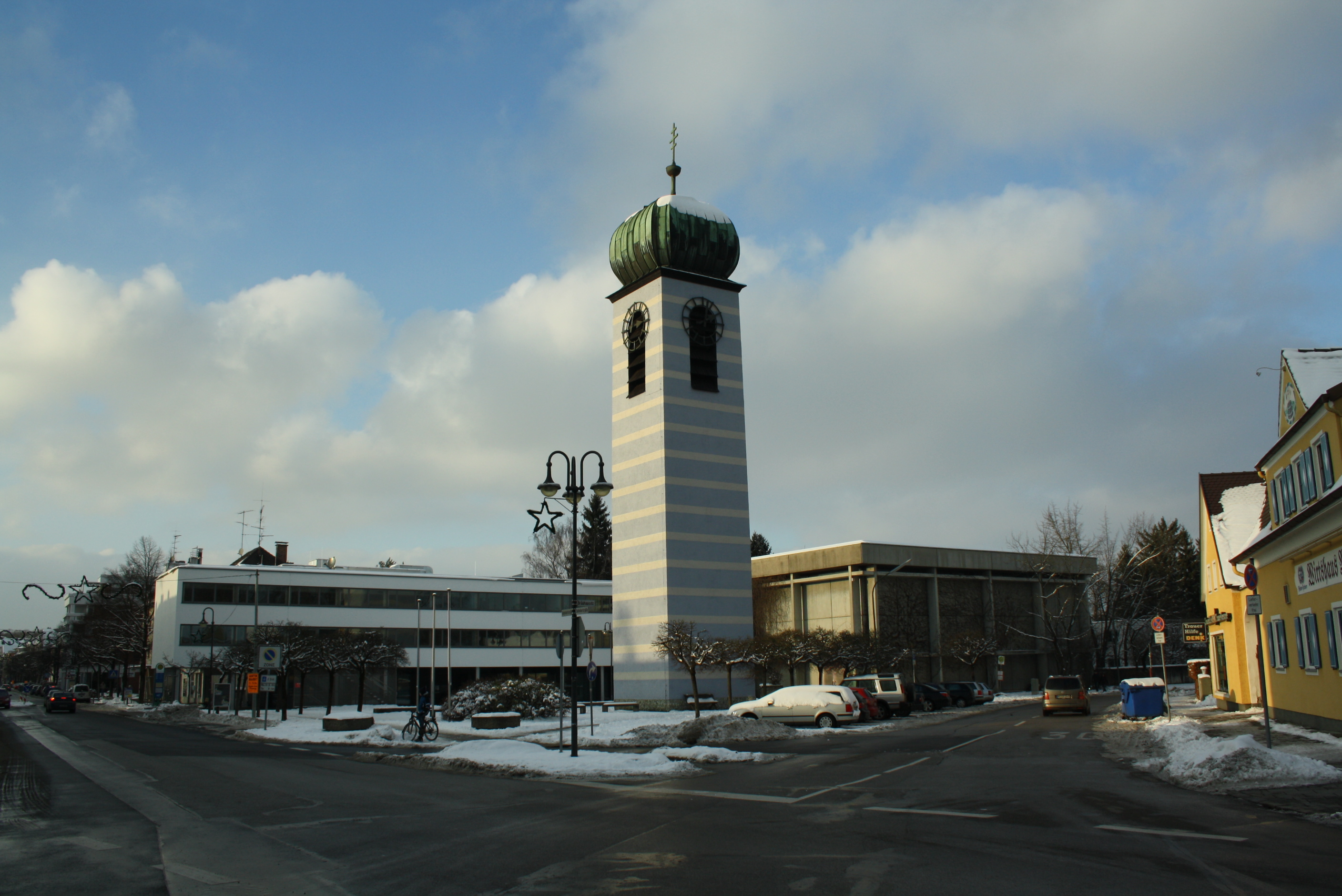 Roman Catholic church St. Elisabeth in Planegg.